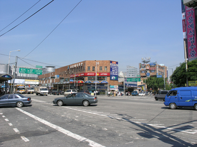 Yongsan Electronics Market